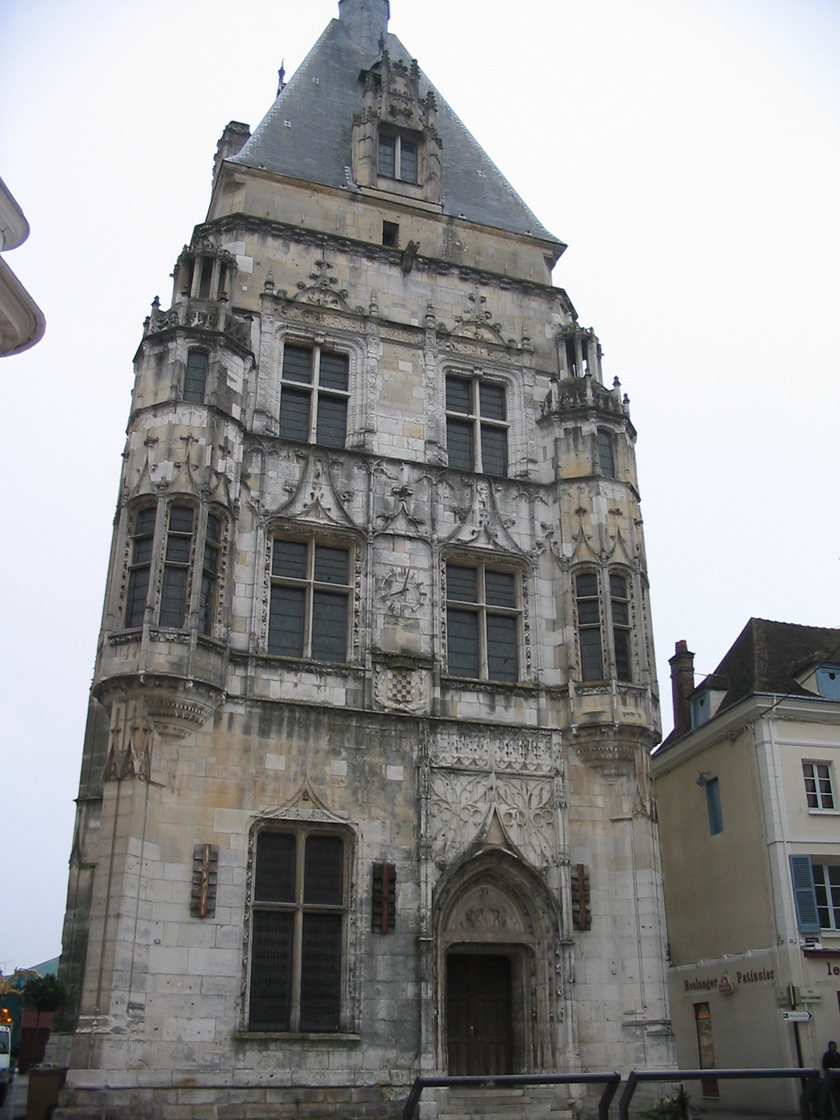 The belfry at Dreux